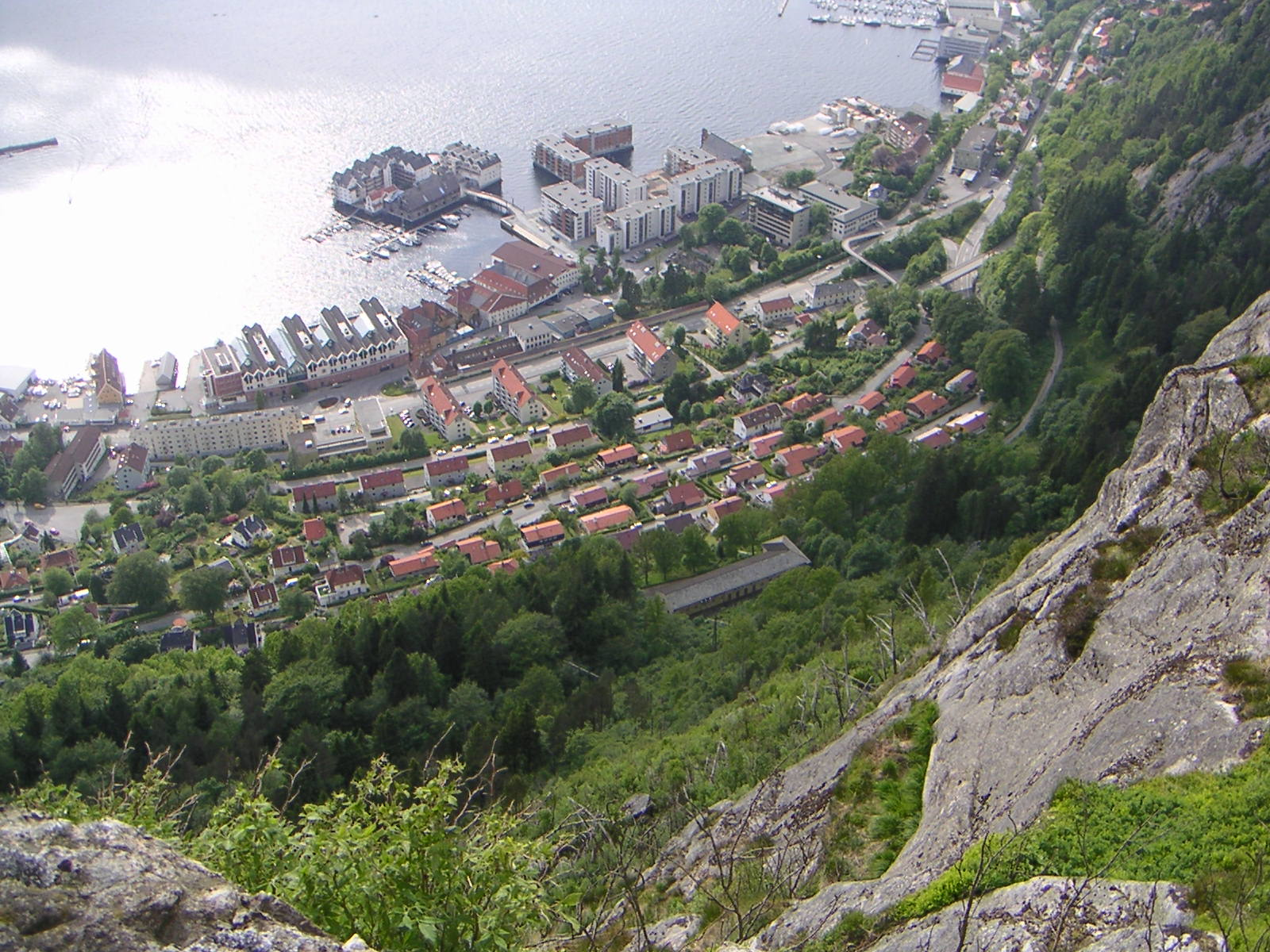 Sandviken, seen from Sandviksfjellet.